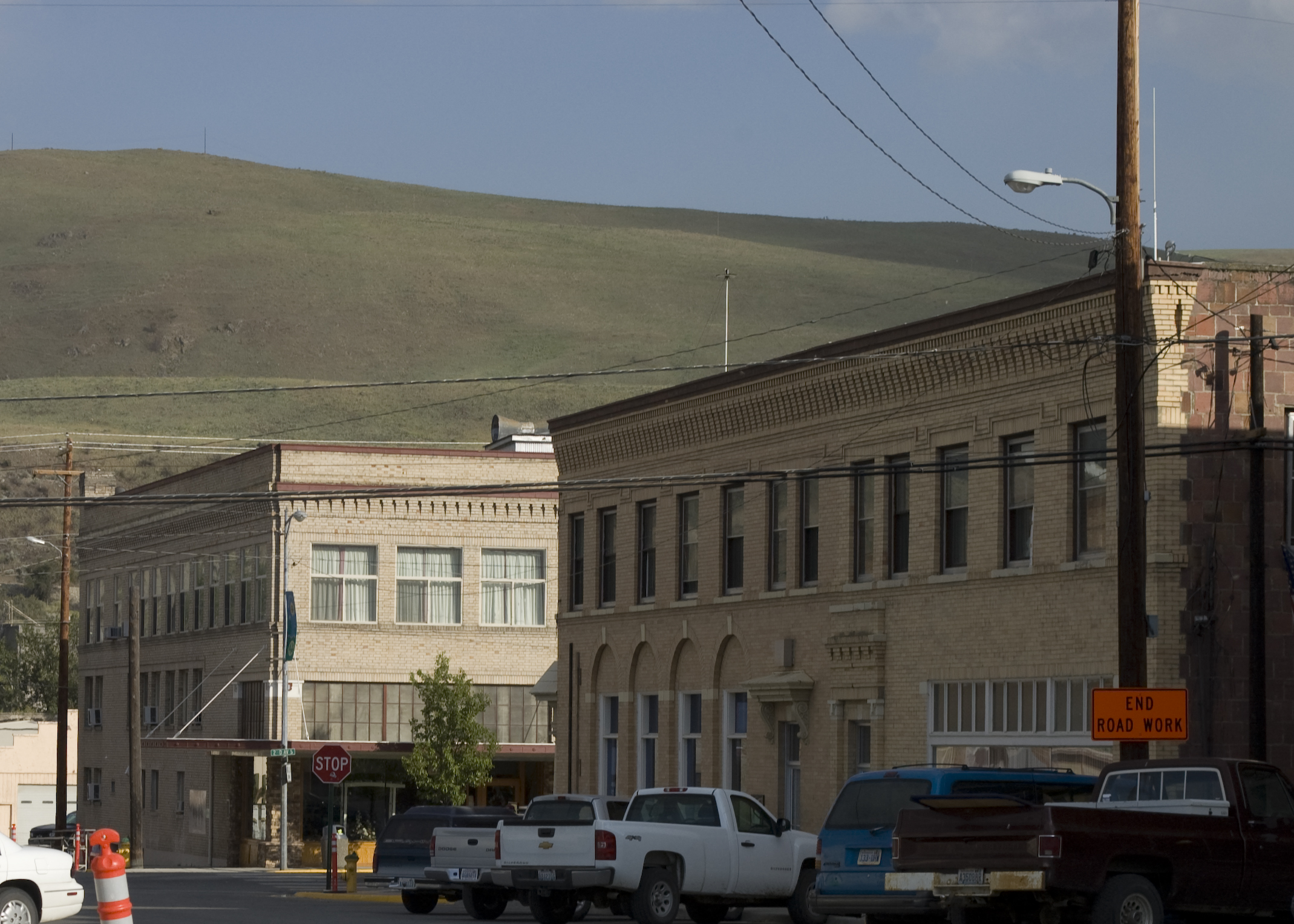 A photograph of Okanogan, Washington.